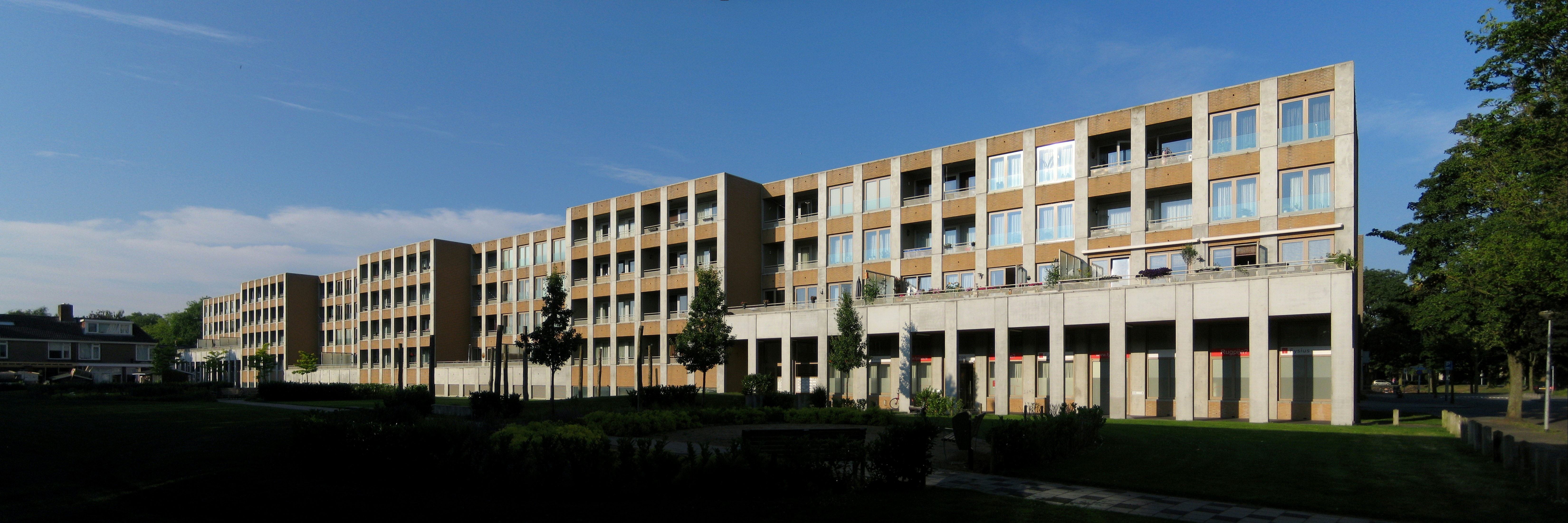 Apartment building (2008) in the Dutch city of Groningen.